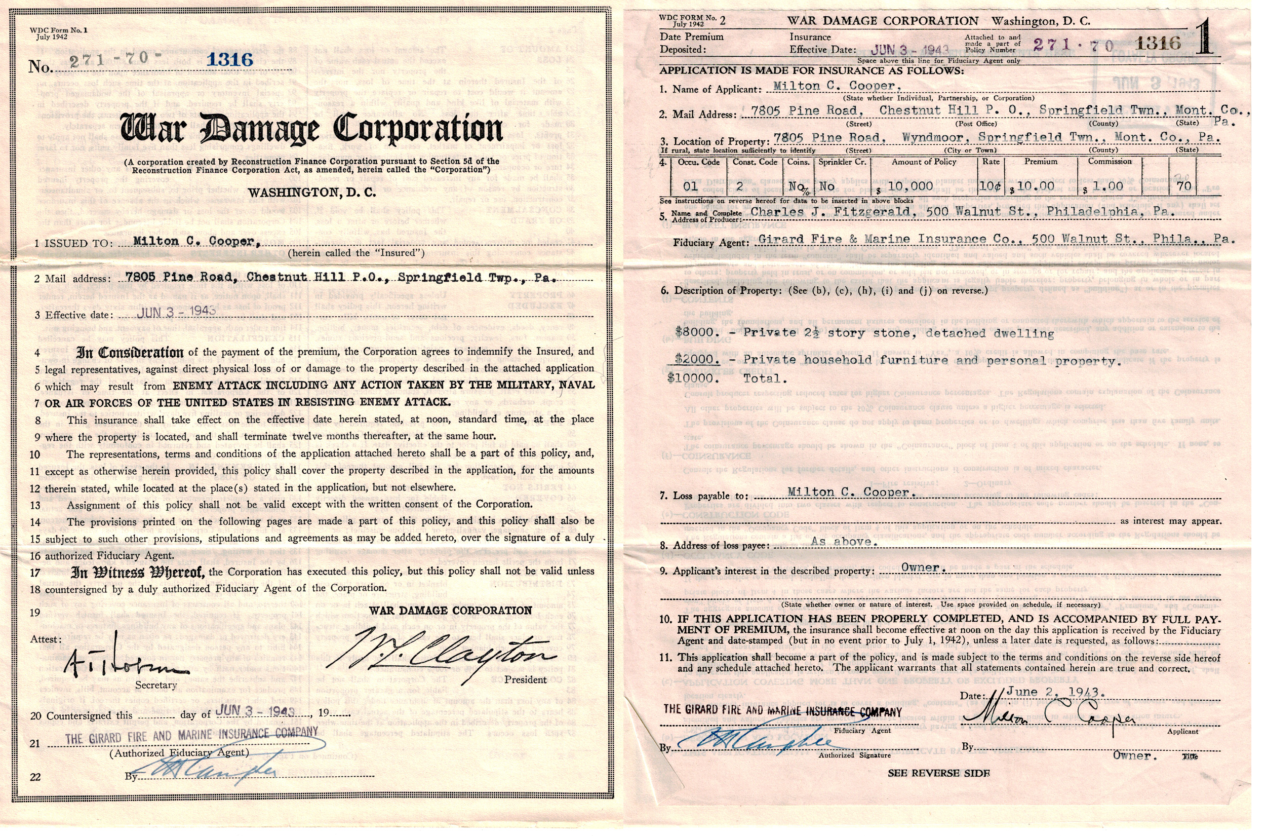 United States Government WWII "War Damage Corporation" $10,000 insurance policy issued under §5 (d) of the "Reconstruction Finance Corporation Act of 1932" and the "War Damage Insurance Corporation Act of 1941"